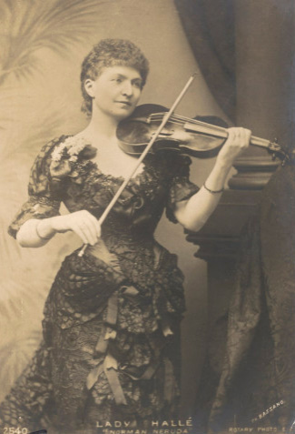 Violinist Lady Halle (Wilma Neruda)